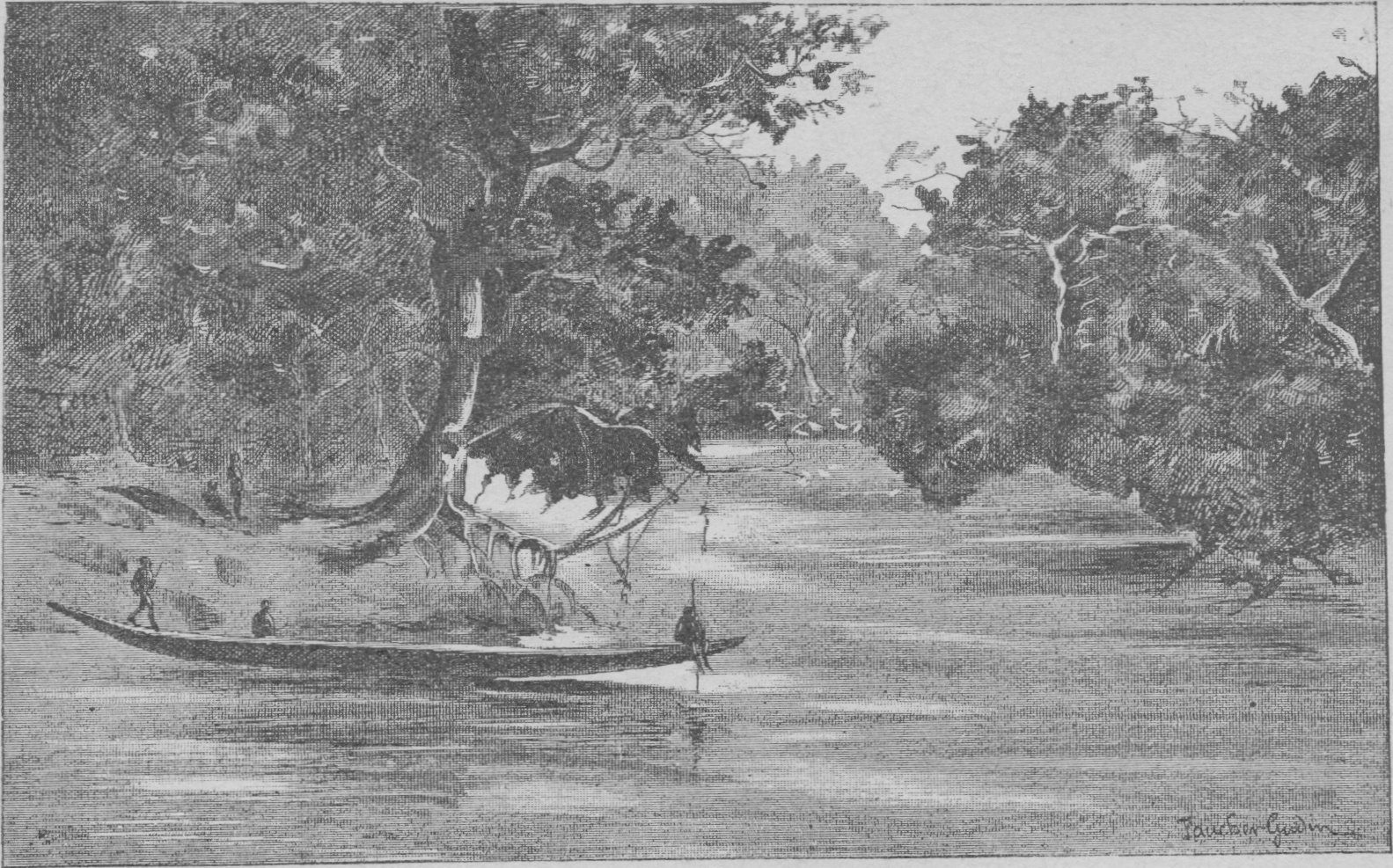 Crossing over the Inkisi River. From the book "Stanleys expedition till Emin Paschas undsättning" (1890) Author: Alphonse-Jules Wauters Translator: Oscar Heinrich Dumrath